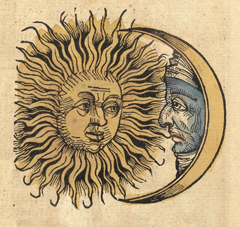 Woodcut from the Nuremberg Chronicle